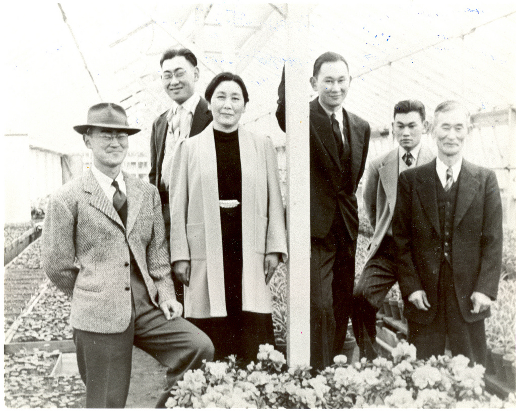 Fred Korematsu and Family - Courtesy of the family of Fred T. Korematsu